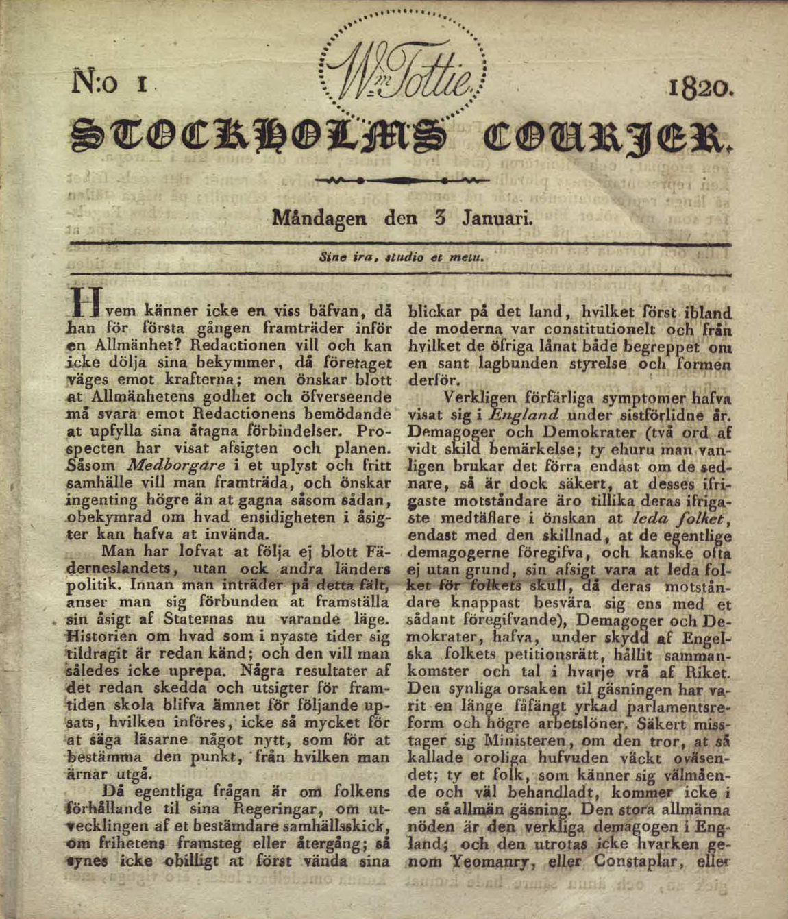 Stockholms Courier. First page of first issue 1820